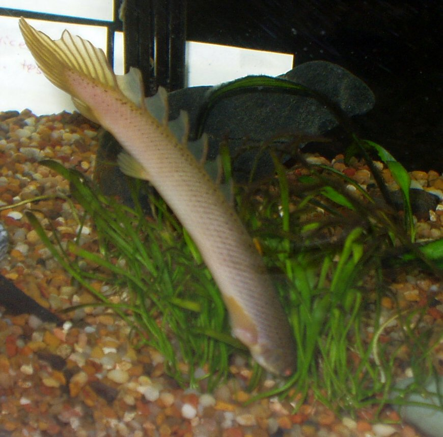 Polypterus senegalus senegalus. Juvenile bichir foraging for food, somewhat vertically